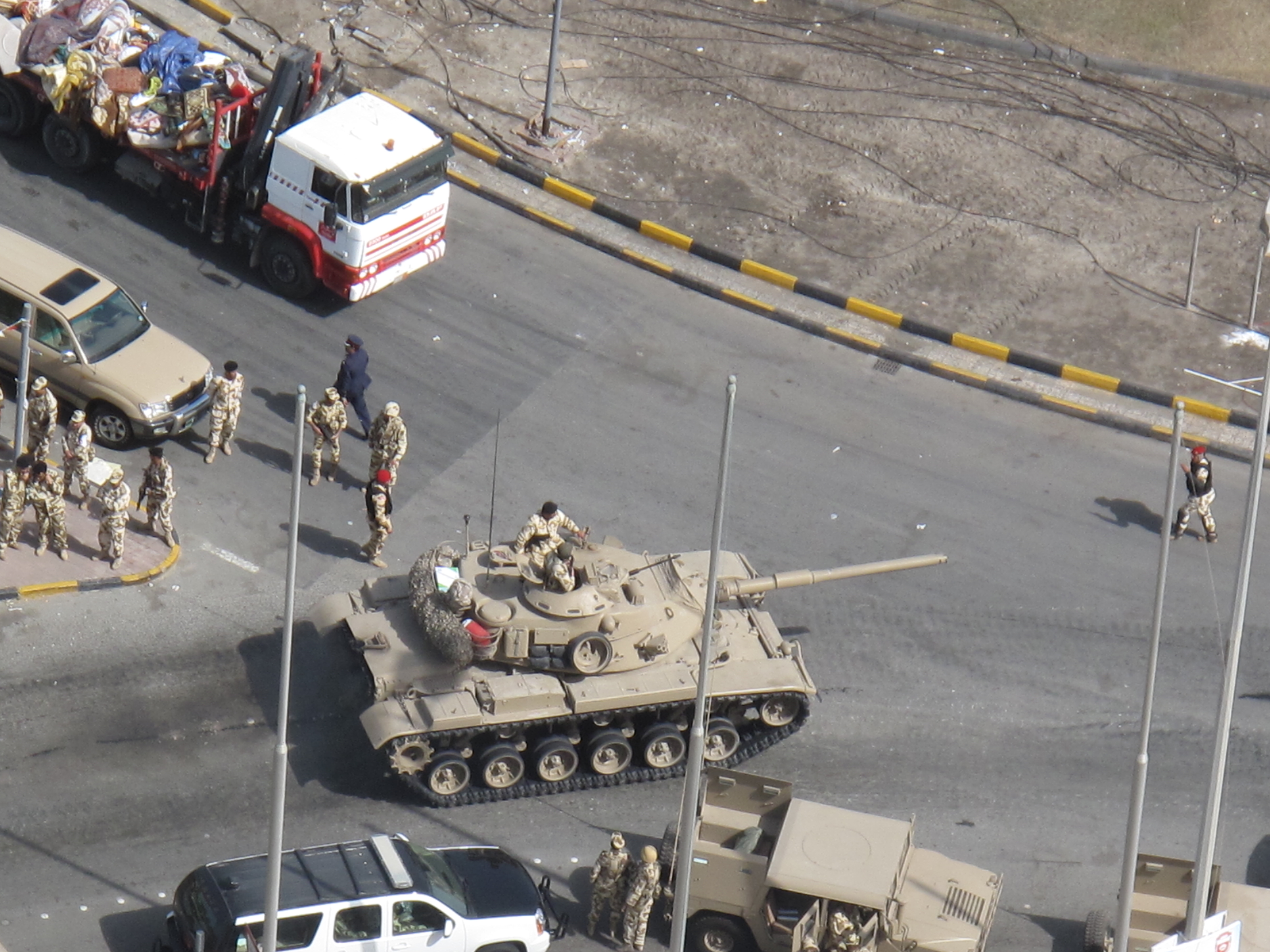 Army tank and personnel moving in Pearl Roundabout